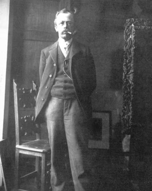 Portrait of Otto Reiniger before 1909